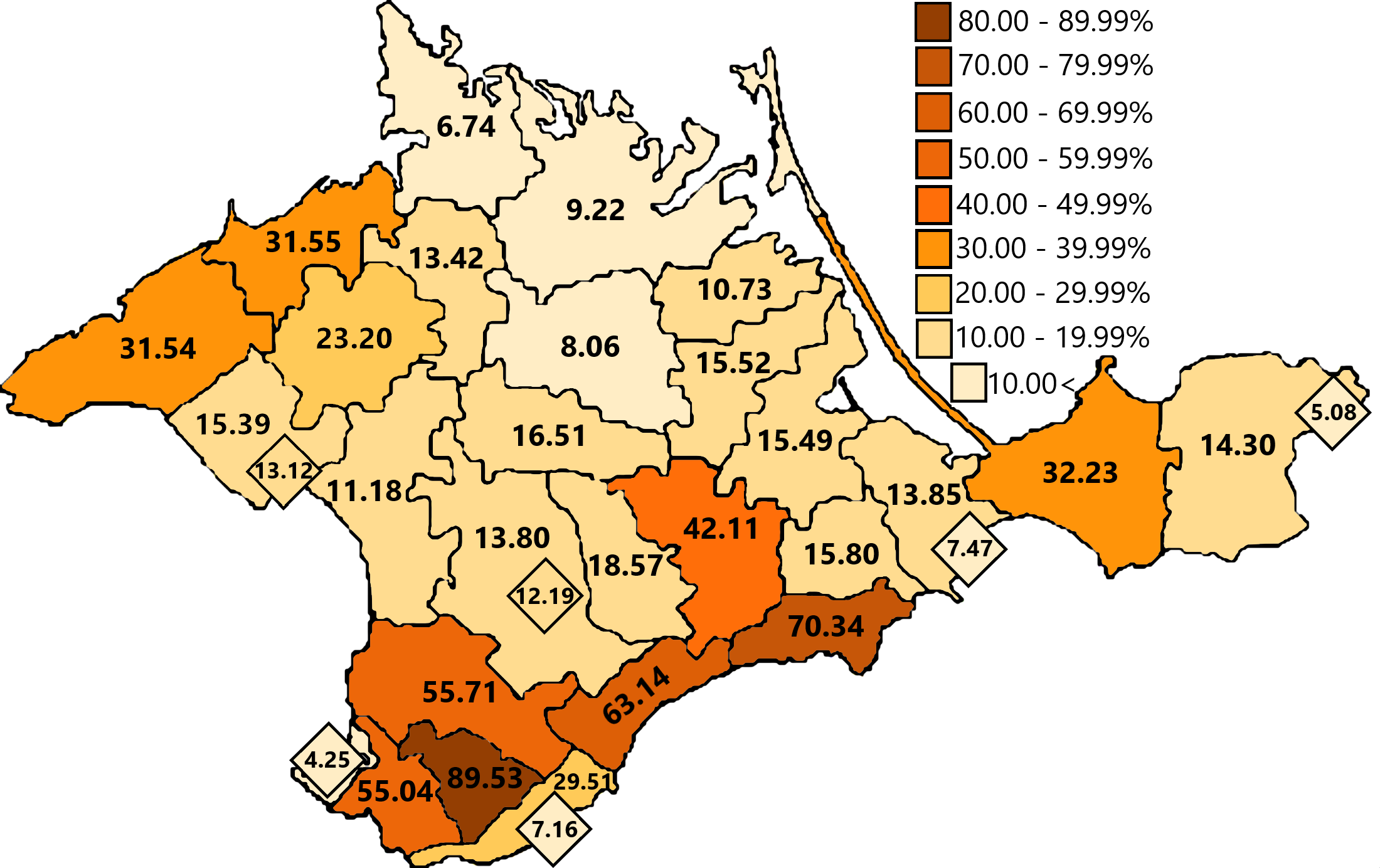 Percentage of Crimean Tatars by region in Crimea accroding to 1939 census Qırımtatarca: 1939 senesindeki cedvelge aluv malümatına köre Qırım rayonlarında Qırımtatarlarnıñ faizi